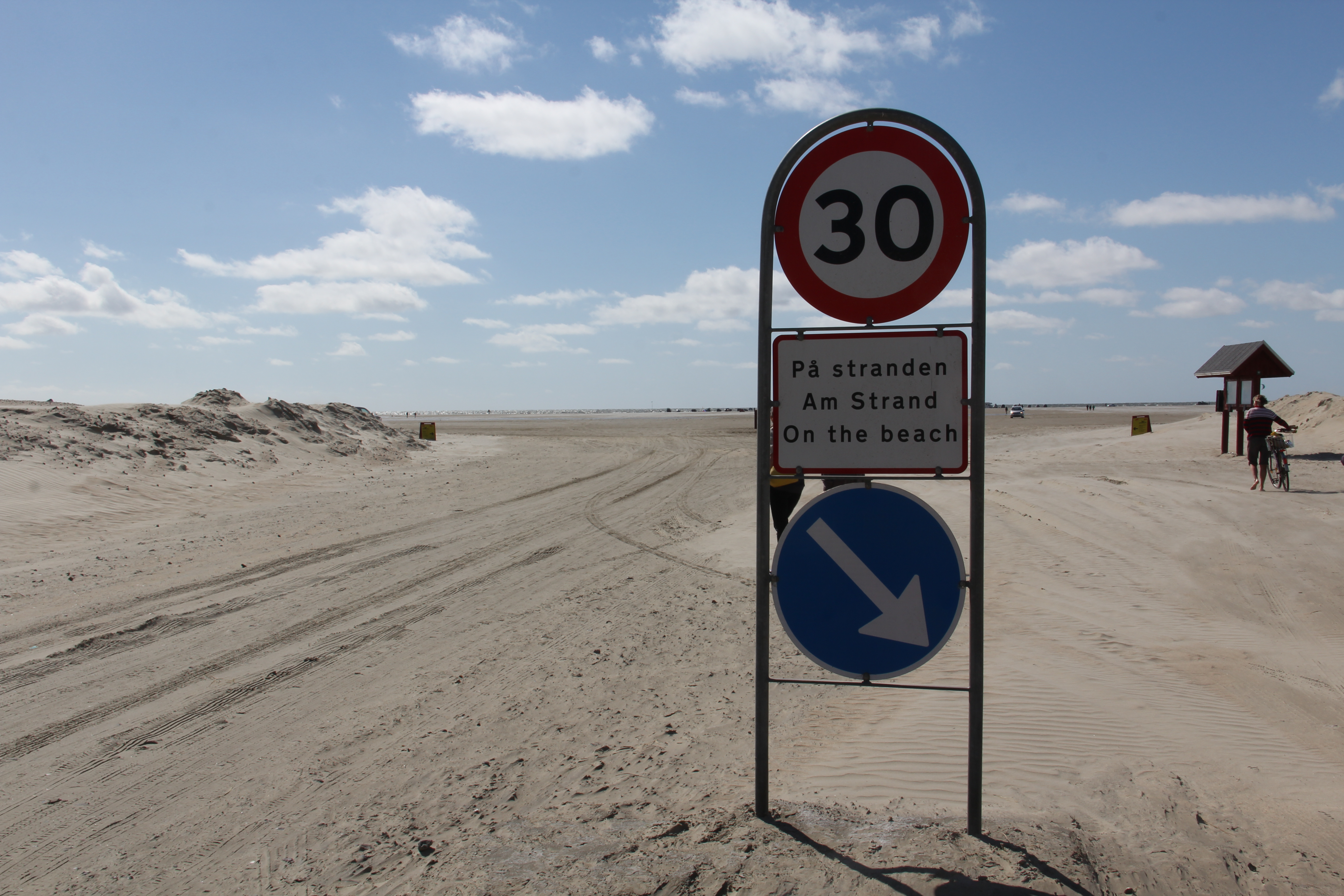 Entrance with speed limit sign to beach on Rømø.